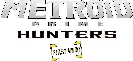 The logotype for "Metroid Prime Hunters: First Hunt".